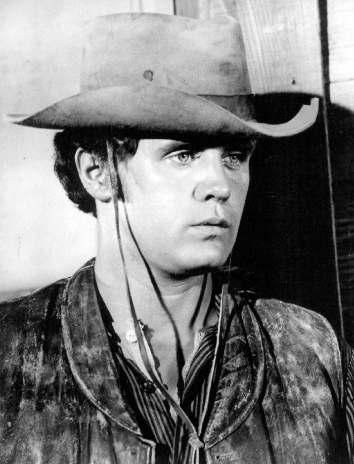 Photo of Mark Slade as Billy Blue Cannon from the television program The High Chaparral.